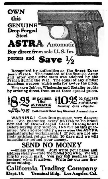 Popular Science ad for the Astra Ruby pistol from Spain.